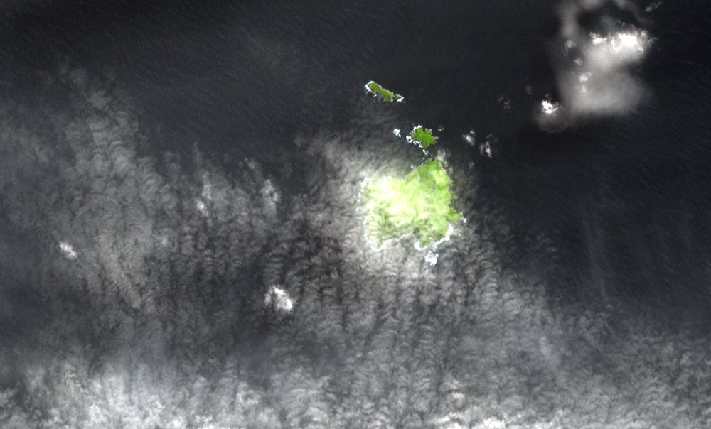 NASA Terra ASTER image of Nightingale Island (with smaller Middle and Stoltenhoff Island), Tristan da Cunha, South Atlantic Ocean